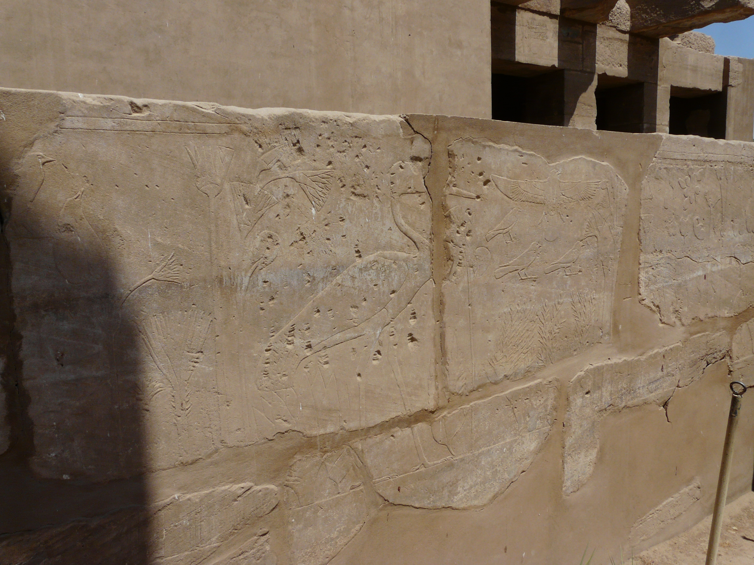 Botanical garden of Thutmosis III. Festival Hall of Thutmose III, in the Precinct of Amun-Re, Karnak